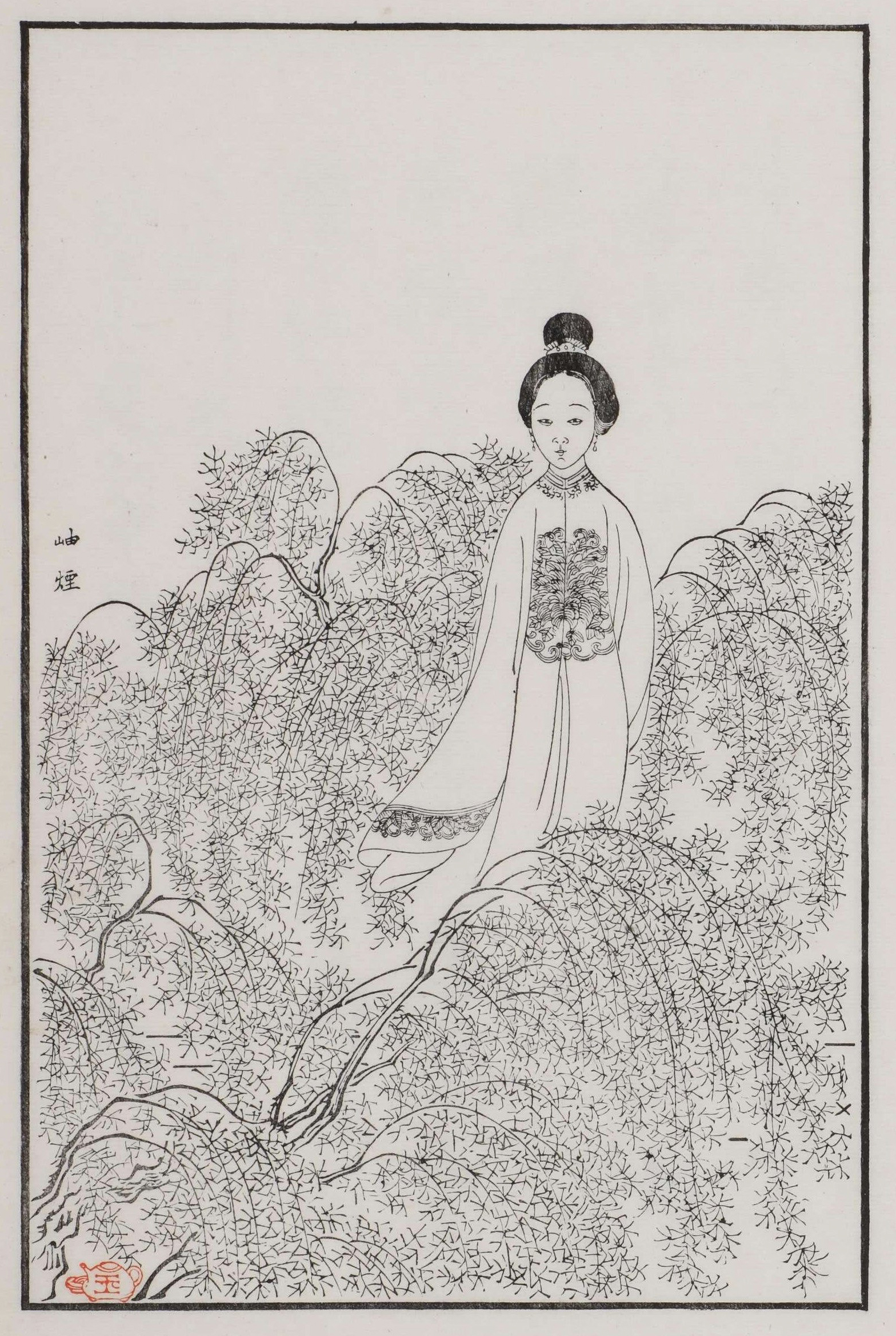 Xing Xiuyan